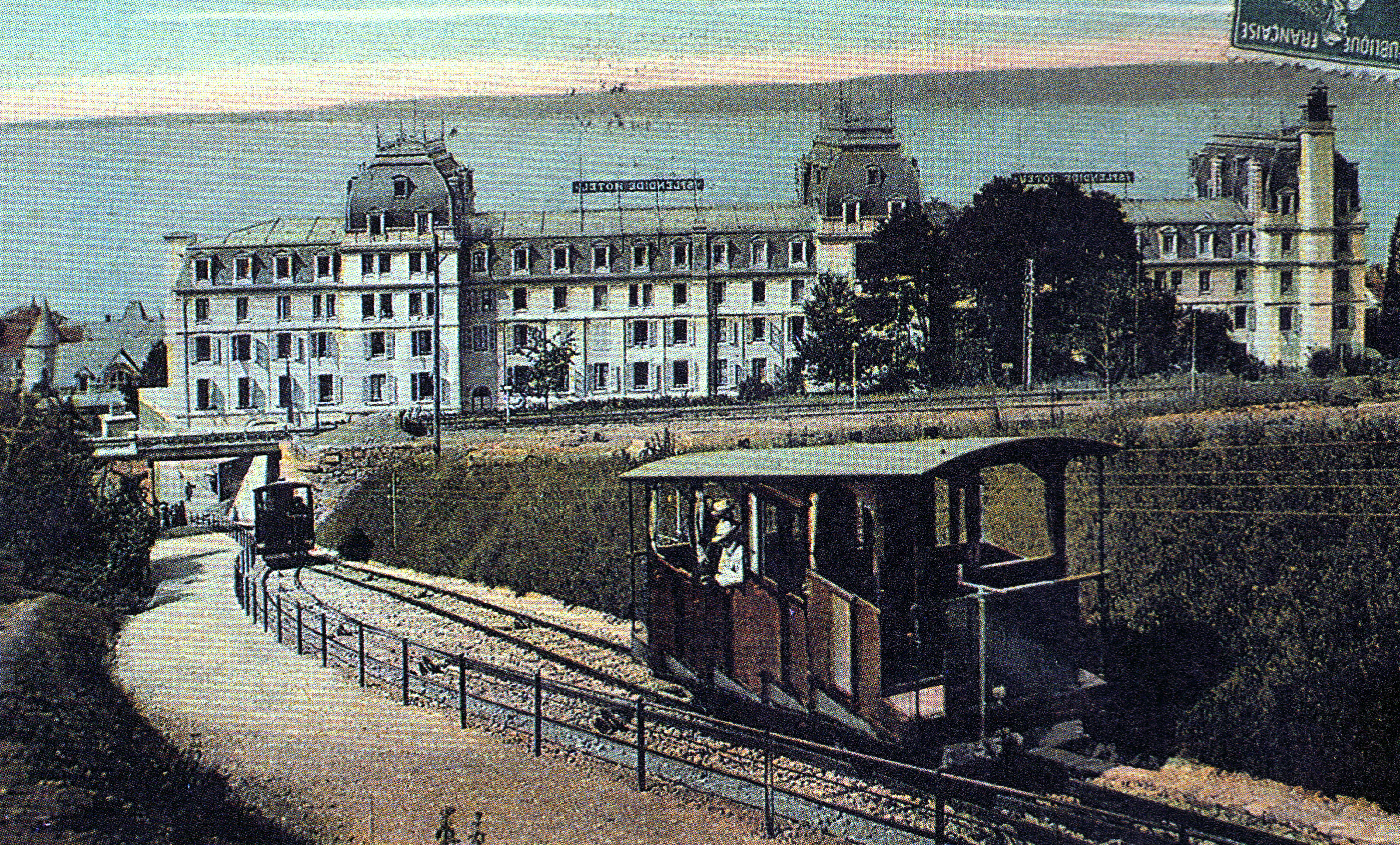 Hotel Splendide Evian, around 1900